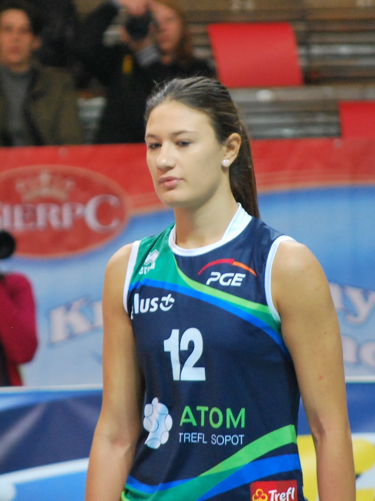 Neriman Ozsoy, turkish volleyball player